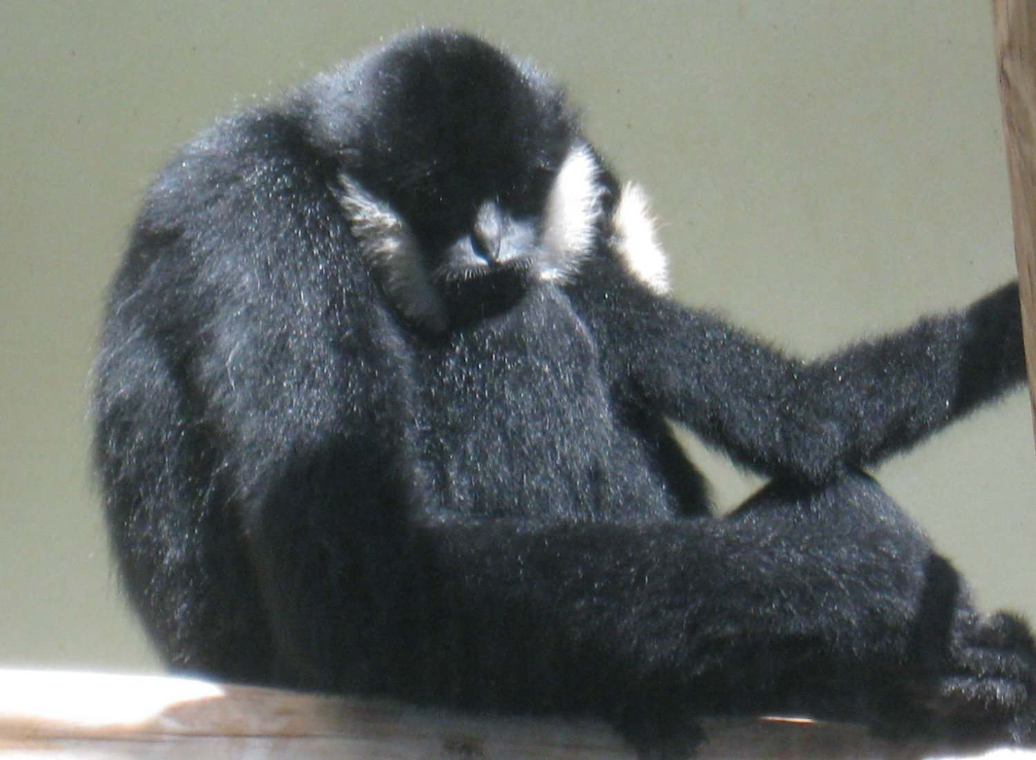 Photo of a male White Cheeked Gibbon, holding a child, taken at the Toledo Zoo.